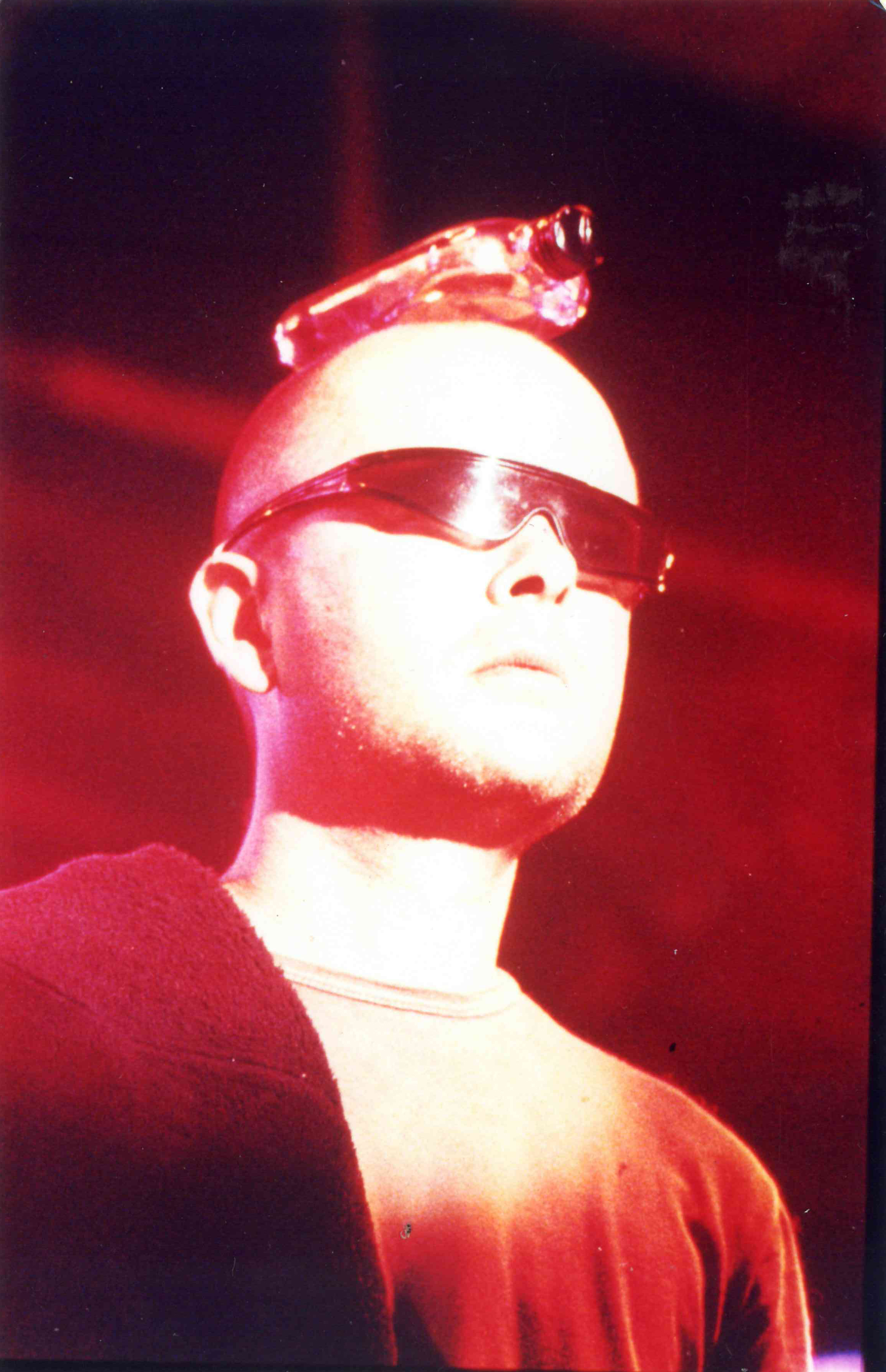 Buenos Aires, 1° de diciembre de 2014 - El Museo del Libro y de la Lengua presenta la muestra “Luca: el sonido y la furia”, en homenaje al músico Luca Prodan. En la exposición se exhiben discos, grabaciones sonoras con canciones inéditas, cassettes que el músico enviaba a su familia, y objetos personales, como ropa, instrumentos y fotografías de la vida pública y privada del artista.